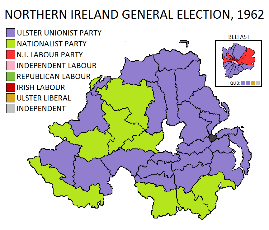 Map showing the result of the 1962 Northern Ireland general election.